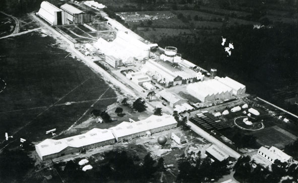 Aerial photograph of Royal Aircraft Factory (RAF), c.1915.